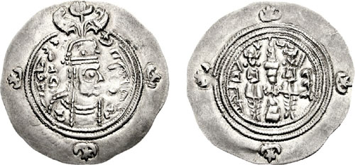 Coin of Borandukht, Sasanian ruling queen (630/1)